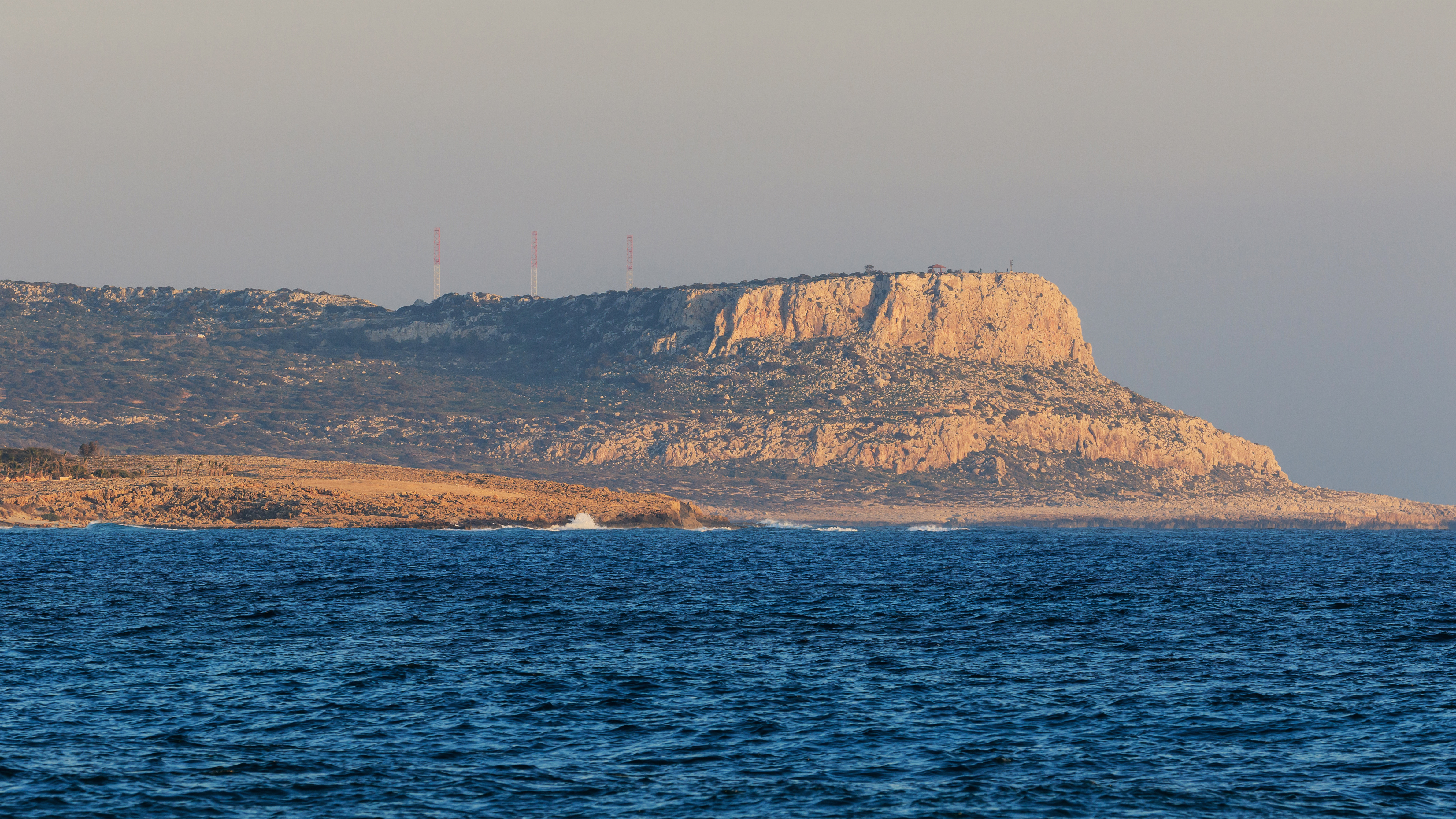 View of Cape Greco near Paralimni, Cyprus